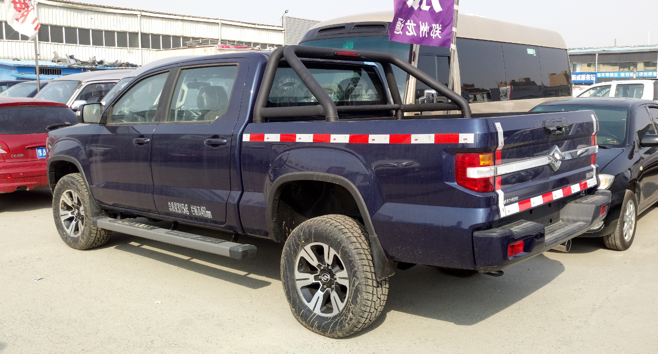 Huanghai N3A photographed in Zhengzhou, Henan province, China.